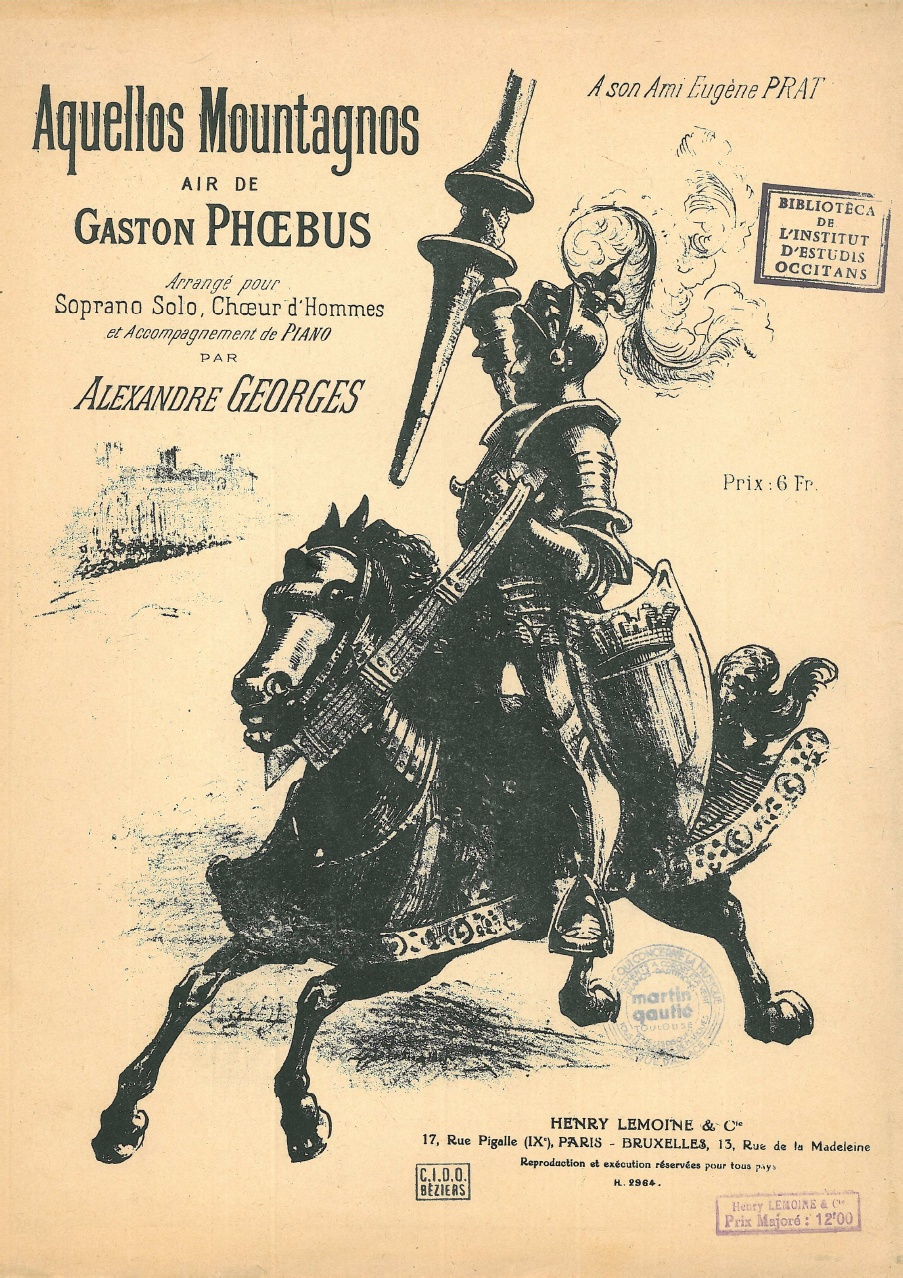 Picture of an Occitan knight for the Occitan song Se canta